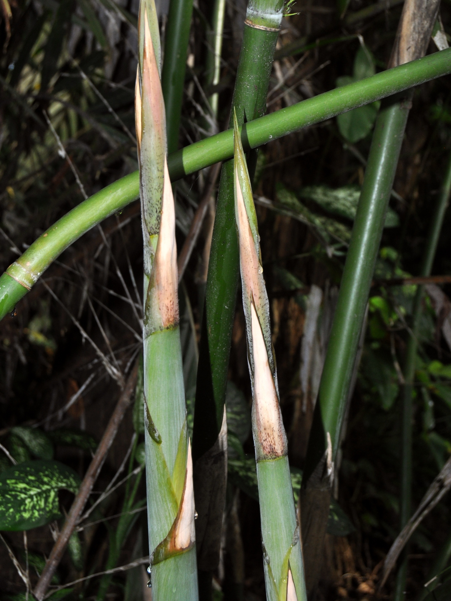 Chinese dwarf bamboo, Bambusa multiplex; young shoot. From Bogor, West Java, Indonesia.